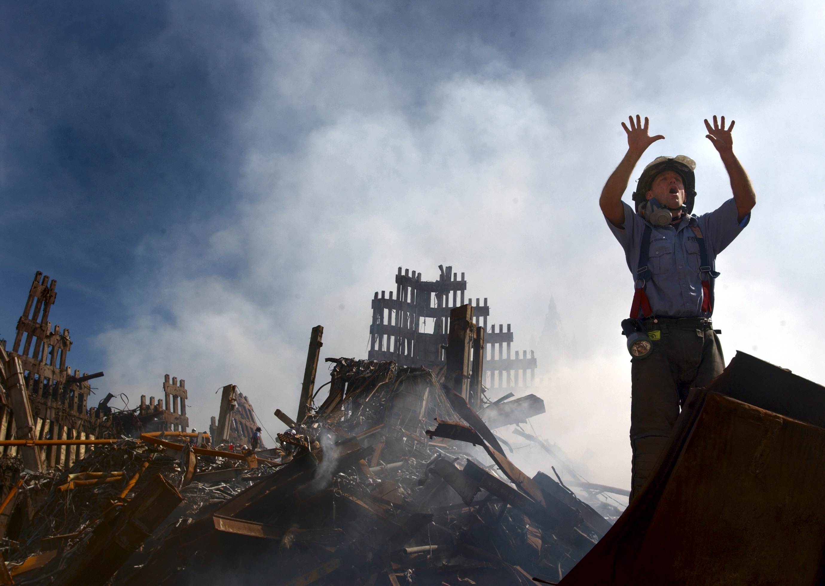 A New York City fireman calls for 10 more rescue workers to make their way into the rubble of the World Trade Center in New York city. (Text by U.S. Navy)